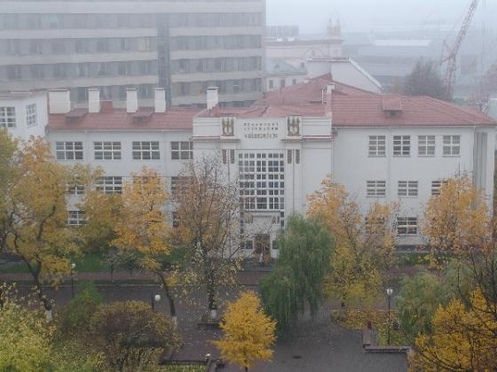 Faculty of Geography